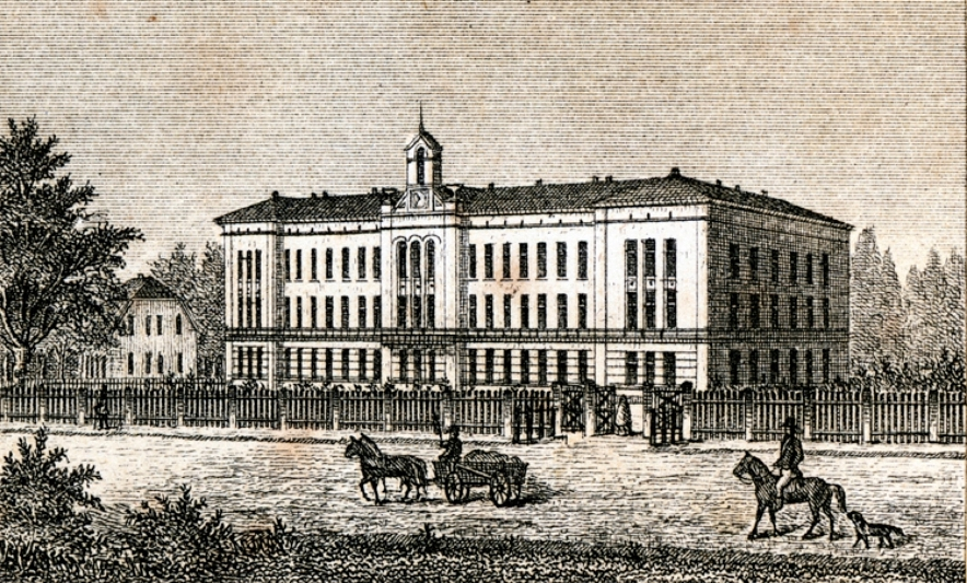 Københavns Sygehjem on Rolighedsvej in Copenhagen, Denmark